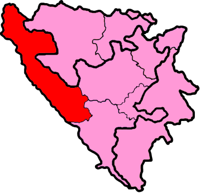 The first electoral unit of the Federation of Bosnia and Herzegovina (HoRBiH) shown within Bosnia and Herzegovina.